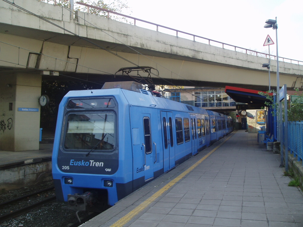 Former train station of Herrera (neighbourghood of San Sebastián) (Gipuzkoa). Operating company: Euskotren.